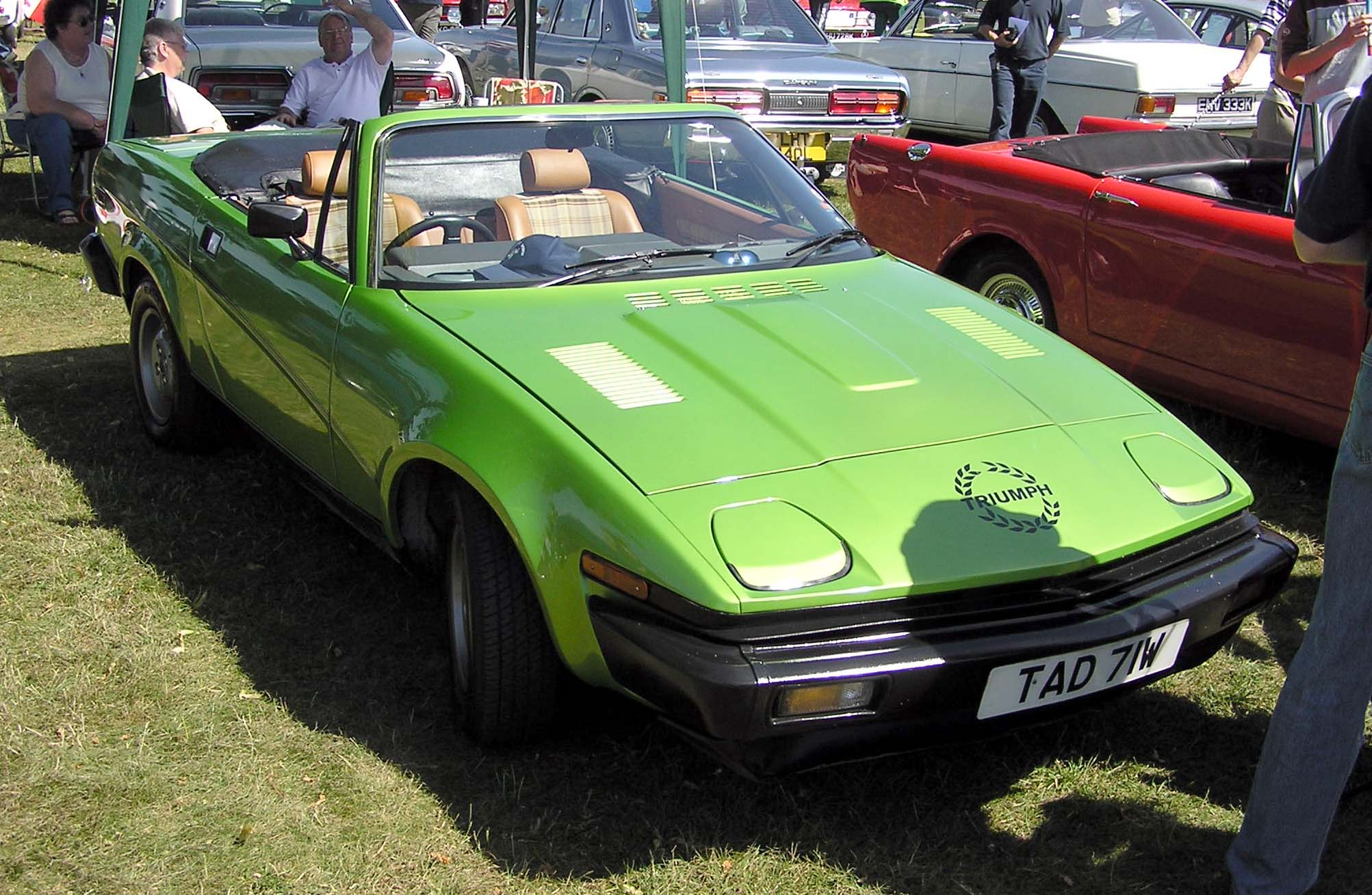 Triumph TR7 at Bristol Car Show, The Downs, Bristol, England.